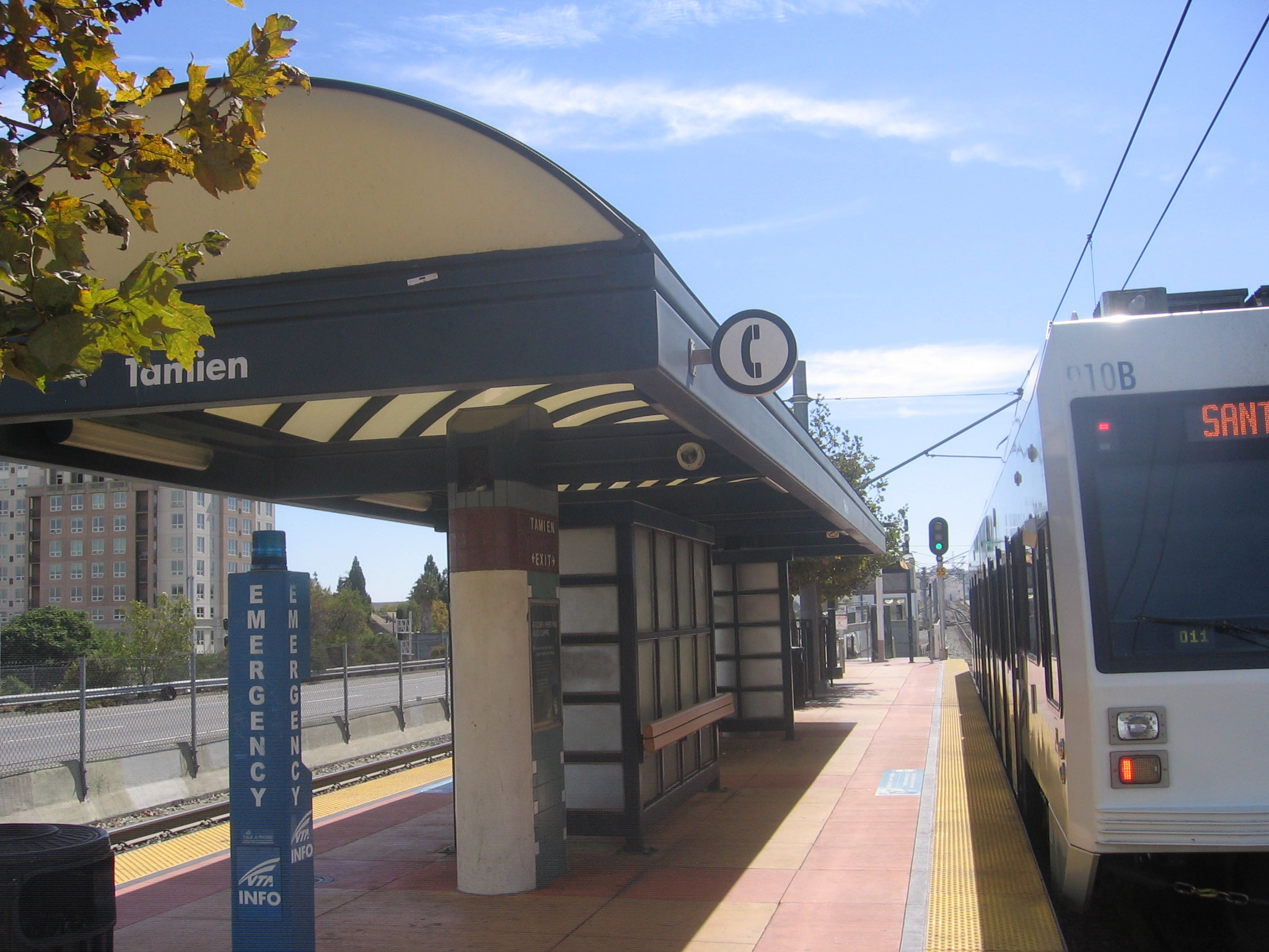 The Tamien Station in San José, California, USA.